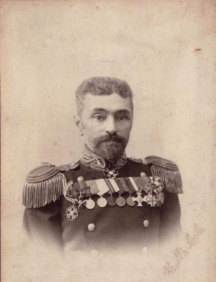 Konstantin Panfyorov, a decorated Russian naval officer